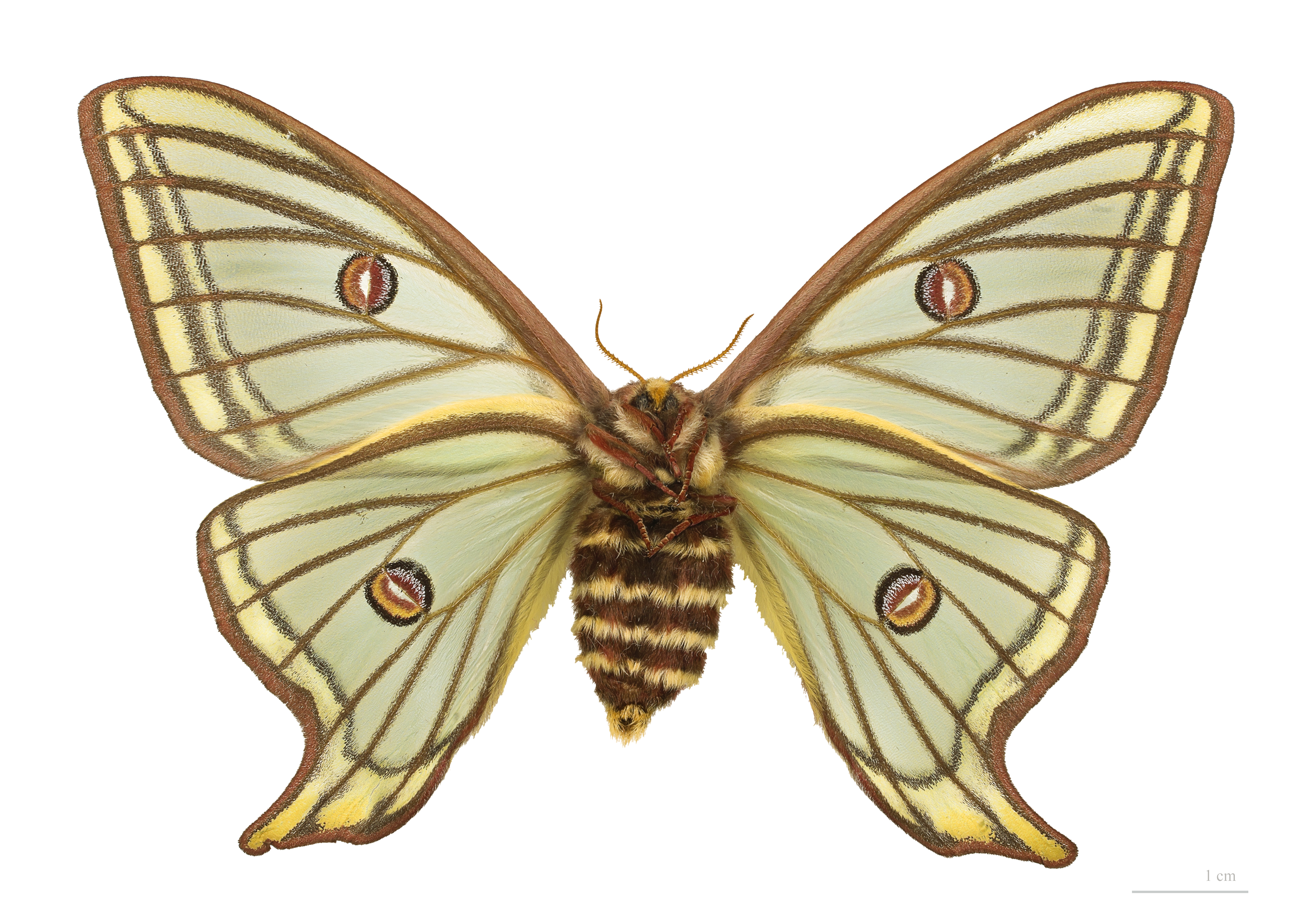 Spanish Moon Moth ♀ - △ Ventral side Locality: Roncal, Navarra, Spain